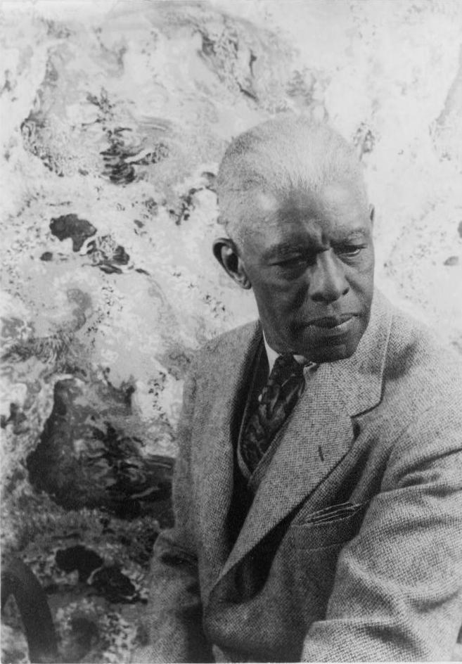 Roland Hayes, American singerPortrait of Roland Hayes